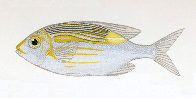 Gnathodentex aureolineatus. Tempera on paper